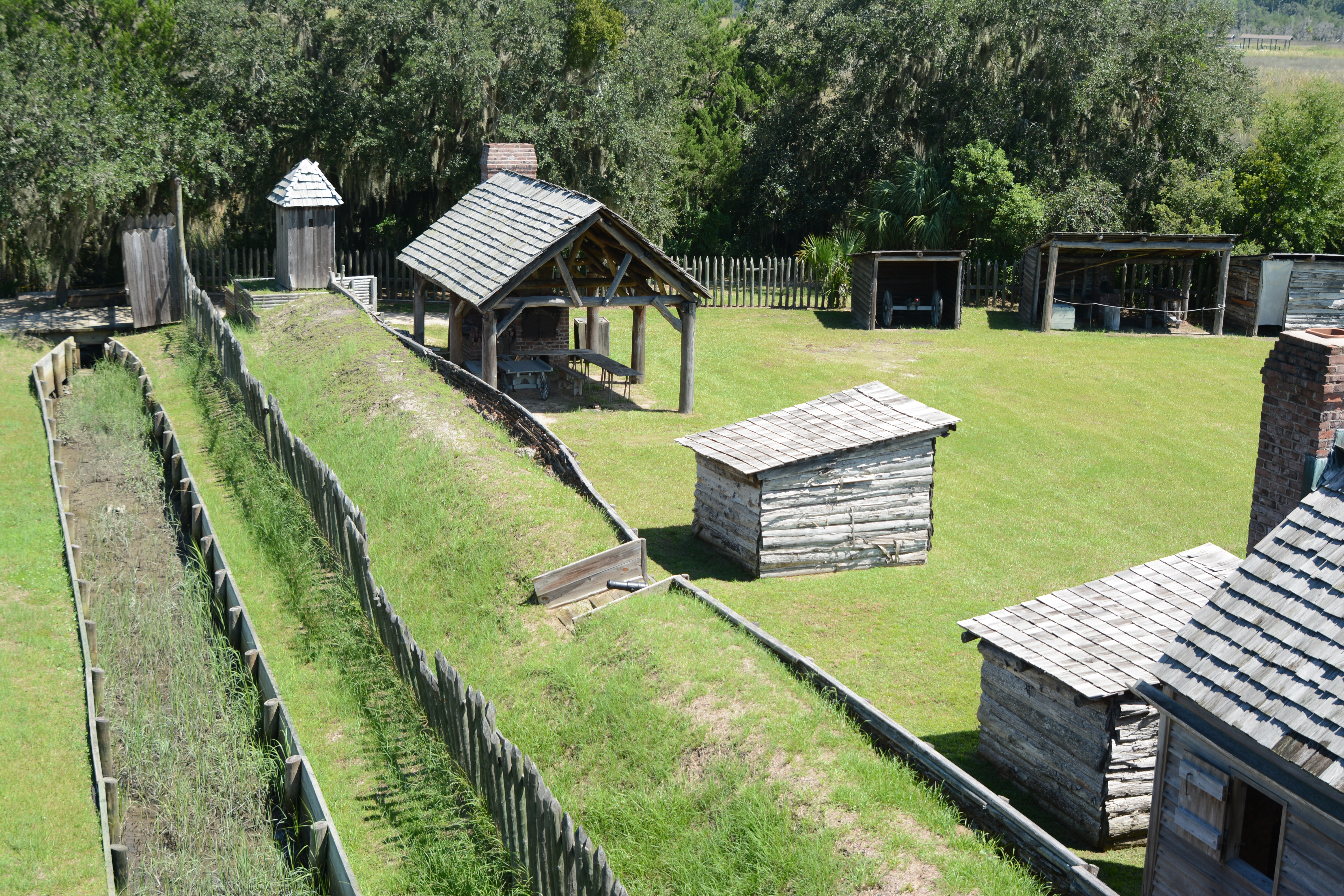 Moat and wall at Fort King George, in McIntosh County, Georgia, US